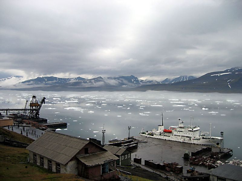 The quay at Barentsburg in Svalbard, Norway. At quay is the ship Professor Molchanov.